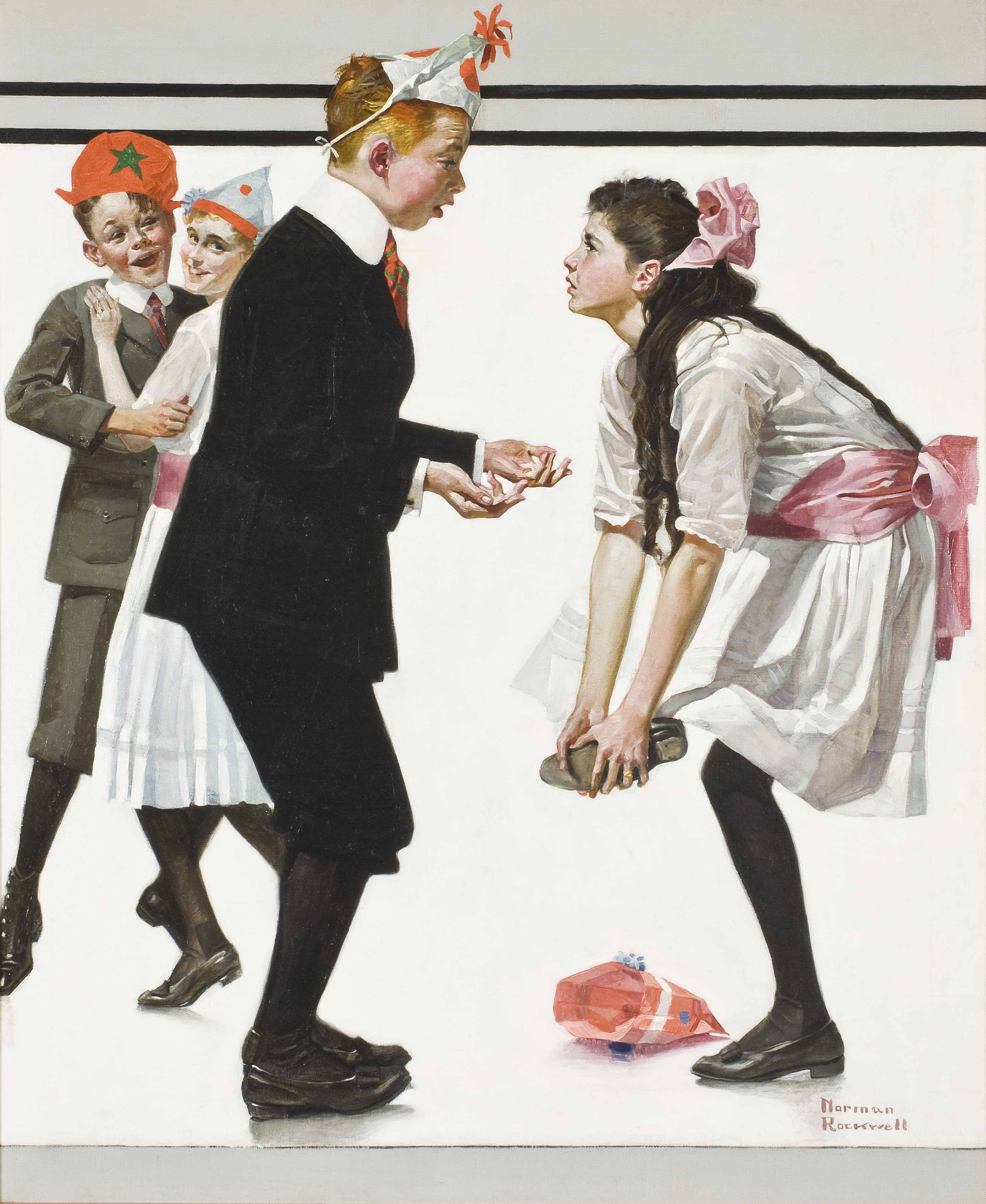 Pardon Me by Norman Rockwell, appeared on the cover of the Saturday Evening Post on January 26 1918